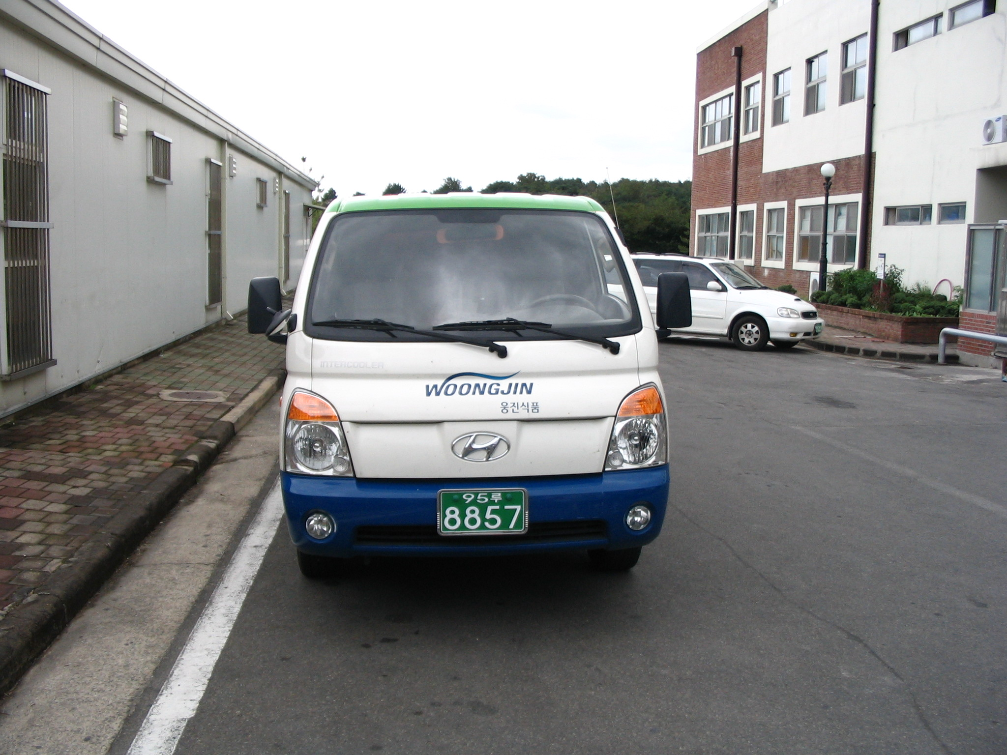 I took this picture myself in Pohang, ROK.